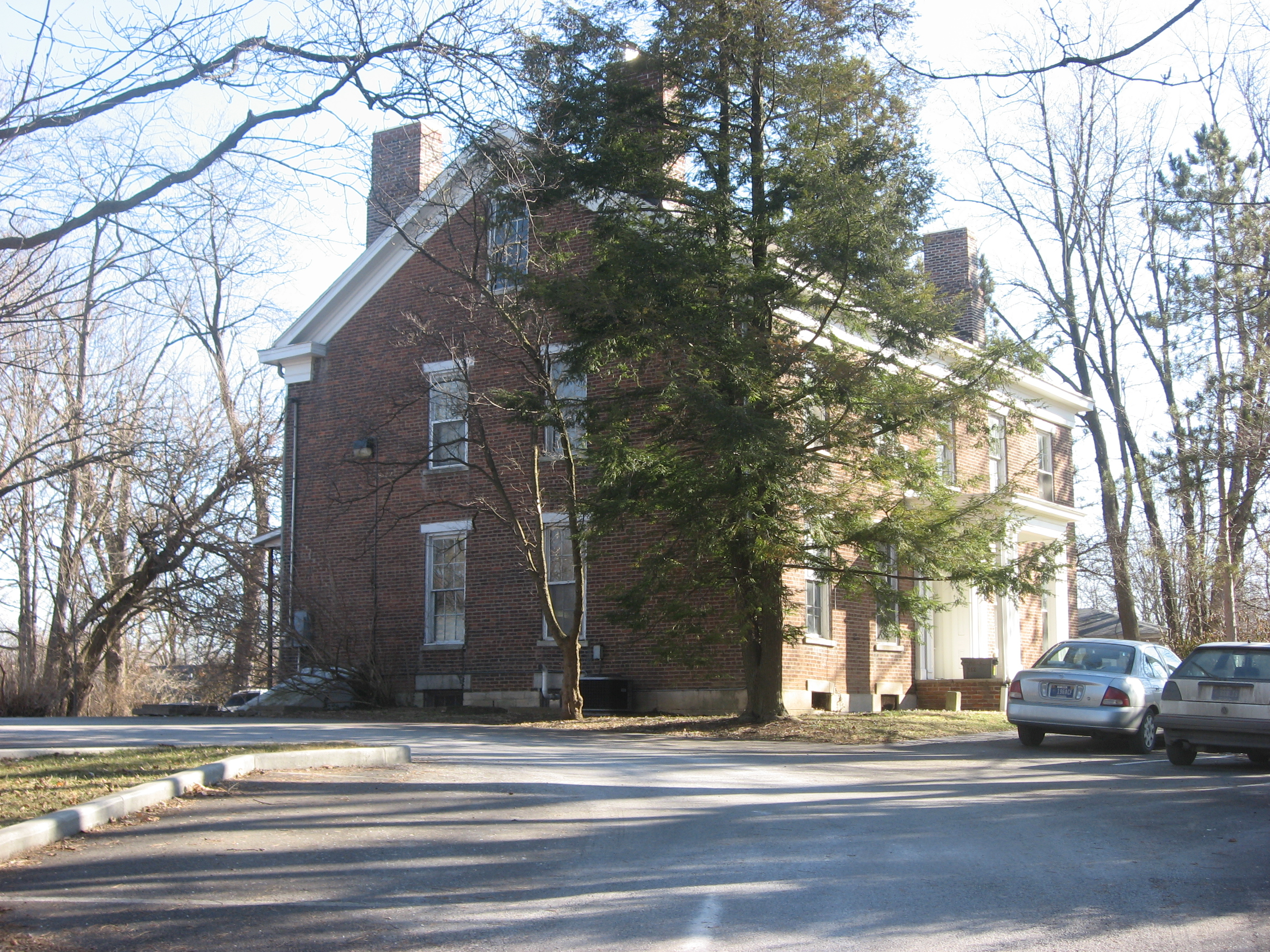 Front of the Millen House, located at 112 N. Bryan Avenue on the campus of Indiana University in Bloomington, Indiana, United States. Built circa 1845, it is listed on the National Register of Historic Places.